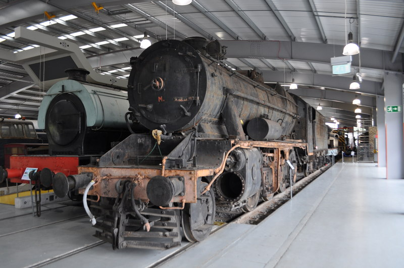 Turkish 8F at The National Railway Museum, Shildon. This is one of two 8F locomotives brought back from Turkey early in 2011. Turkey was a neutral country in WW2 and to keep Turkey sweet Churchill sent several of these locomotives to the Turkish railways. Since the 1980s they have sat disused in engine sheds. A group of British enthusiasts have repatriated a few already and these are the latest. The pair were featured in a channel five documentry. This locomotive (45170) will be sent for restoration in early 2012. The other (45166) was sent to a museum in Beersheba, Israel in December 2012 where it has been cosmetically restored and placed on display.